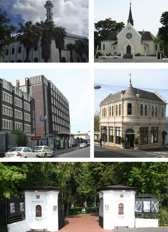 Compilation of images of Wynberg in Cape Town.